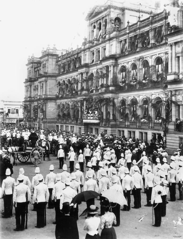 Lord Lamington addresses Federation Day crowds, Brisbane, 1901 Lord Lamington reads the Proclamation of Commonwealth from a balcony of the Treasury building. Crowds are gathered below in William Street to hear him and watch the Federation Day procession passing by. The view is from William Street, near the corner of Queen Street, with the Treasury building on the right. The Treasury is decorated with palms and flags with spectators visible on the balconies. The soldiers, standing at attention with rifles at their side in the foreground of the photograph, are wearing white jackets and white helmets. A photographer can be seen at work, in the centre left of the shot, standing on the back of a cart. Many in the crowd are wearing boater hats while one gentleman standing in the immediate foreground next to two ladies is wearing a top hat.